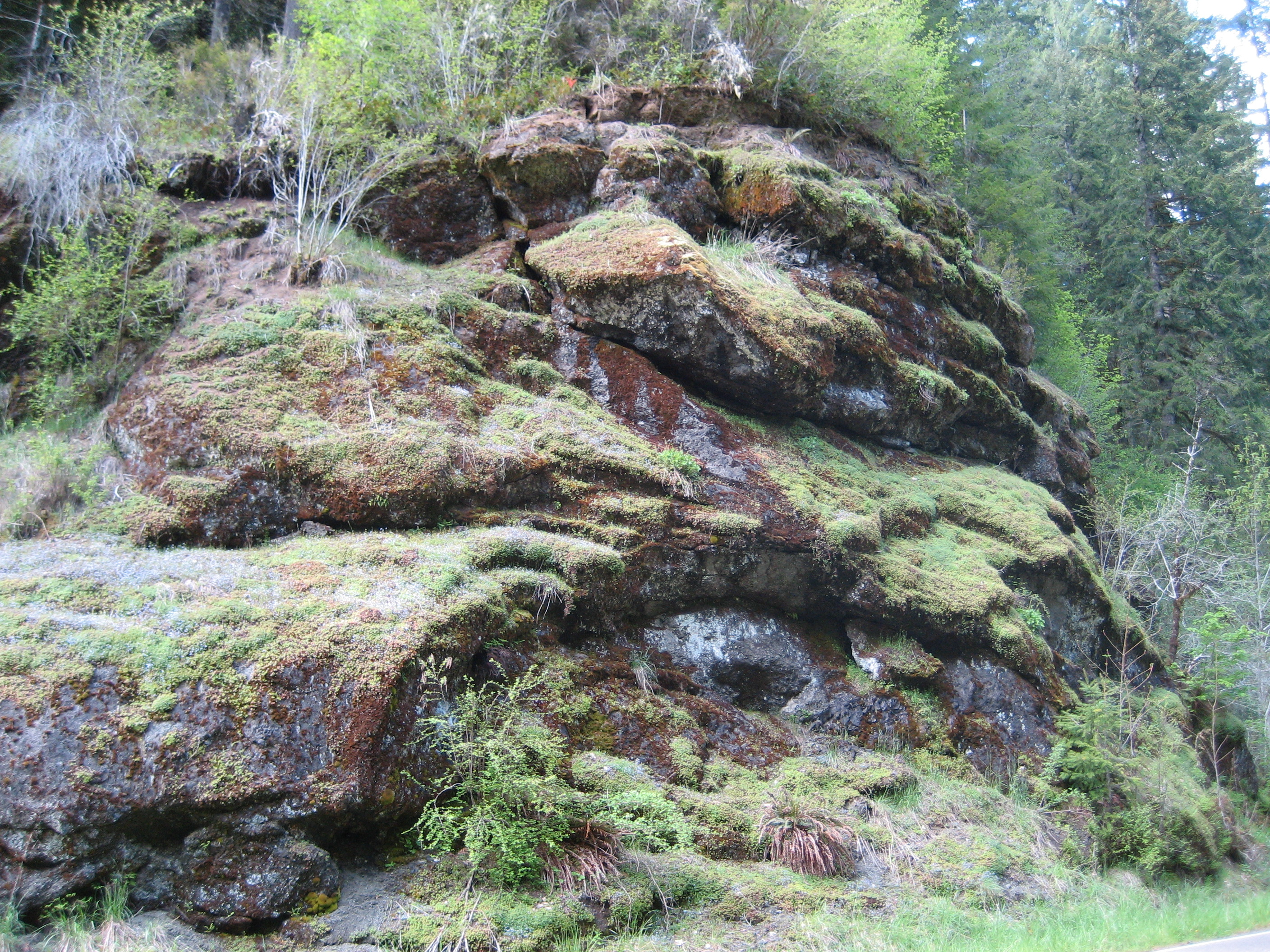 Geologic formation in the Oregon Coast Range